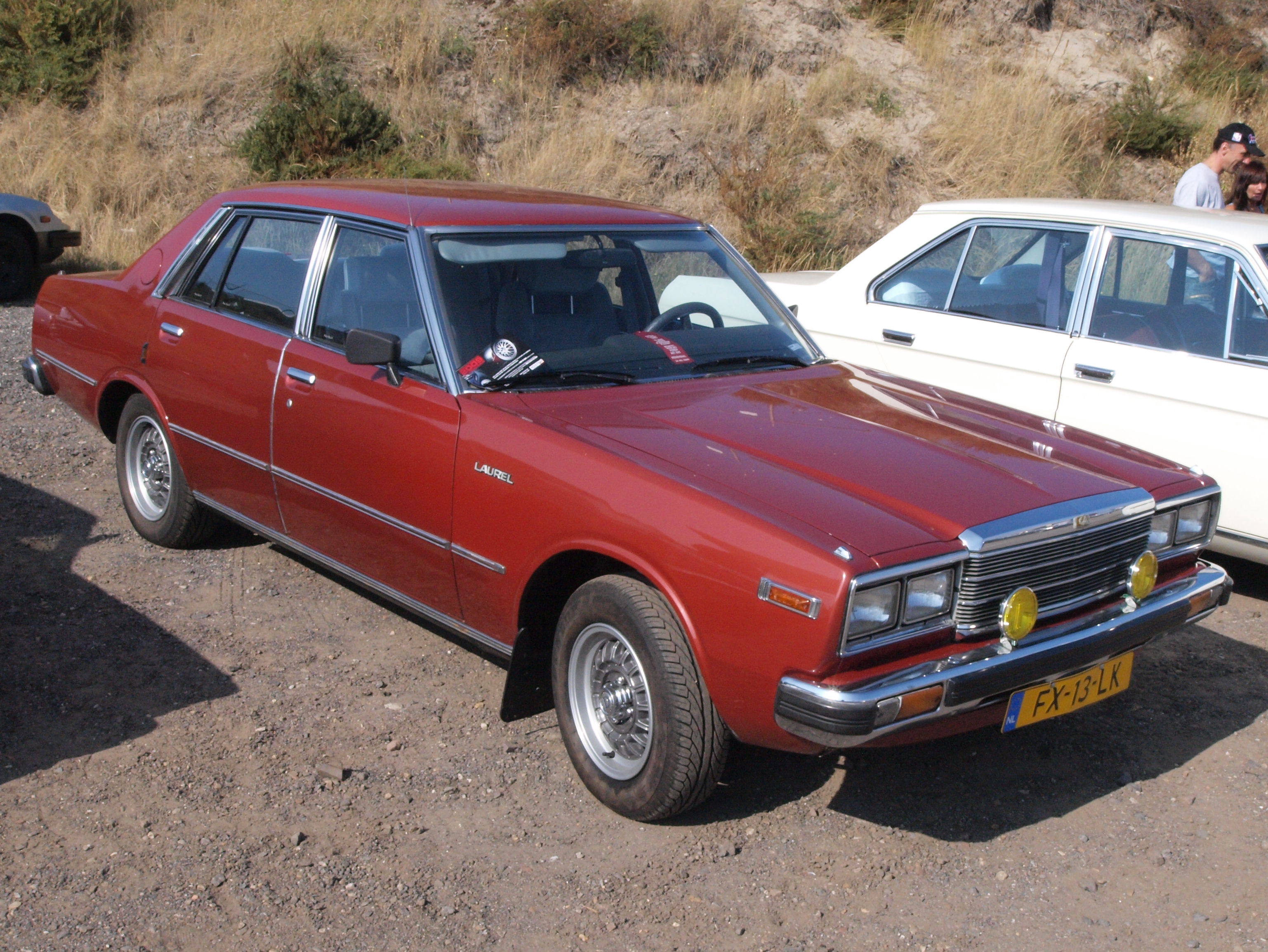 Photographed at the Nationaal Oldtimer Festival Zandvoort 2009, The Netherlands. OLYMPUS DIGITAL CAMERA